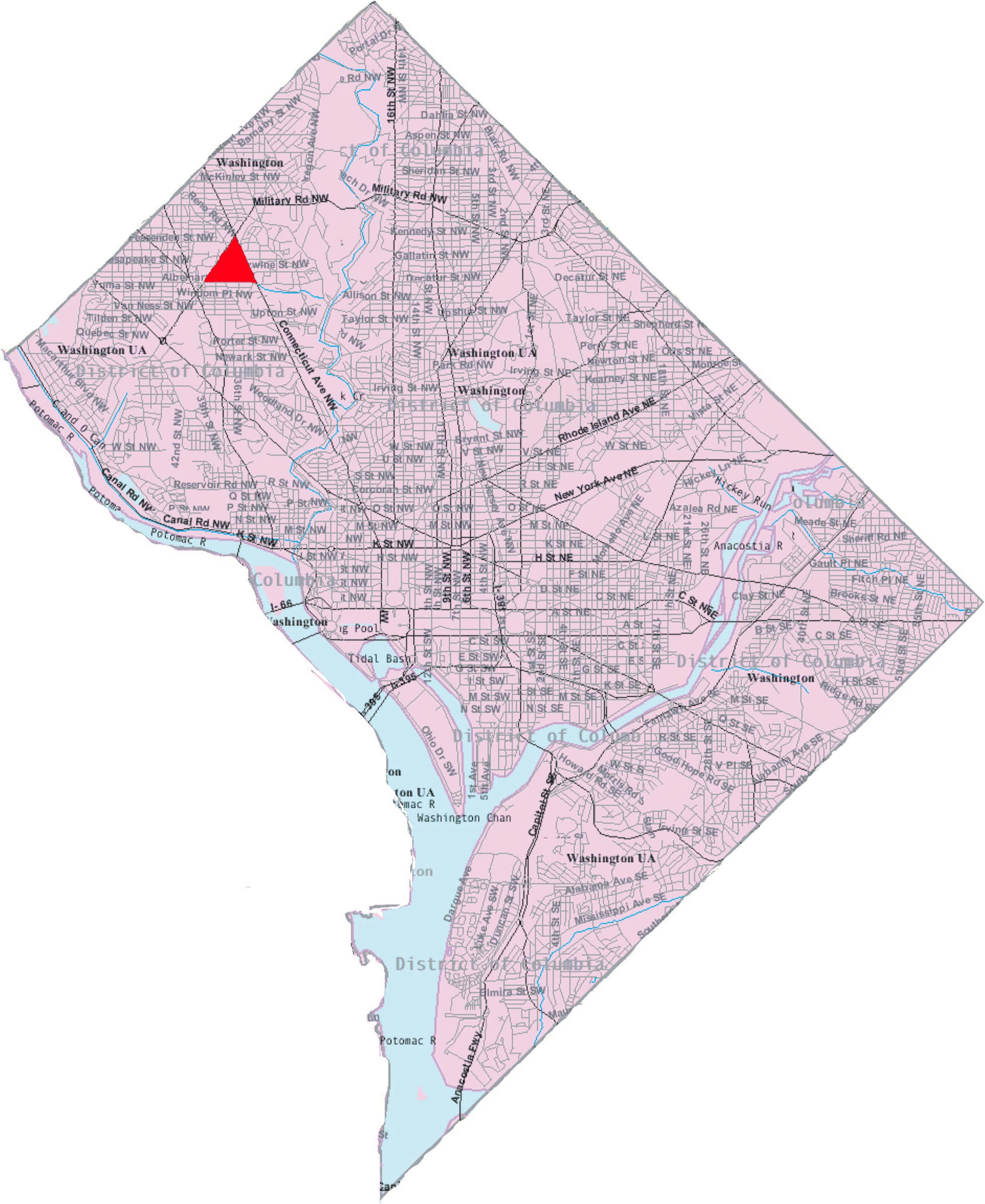 This image is a modified version of a self-generated reference map from the U.S. Census Bureau's American Factfinder at by Wikipedia user Msclguru.